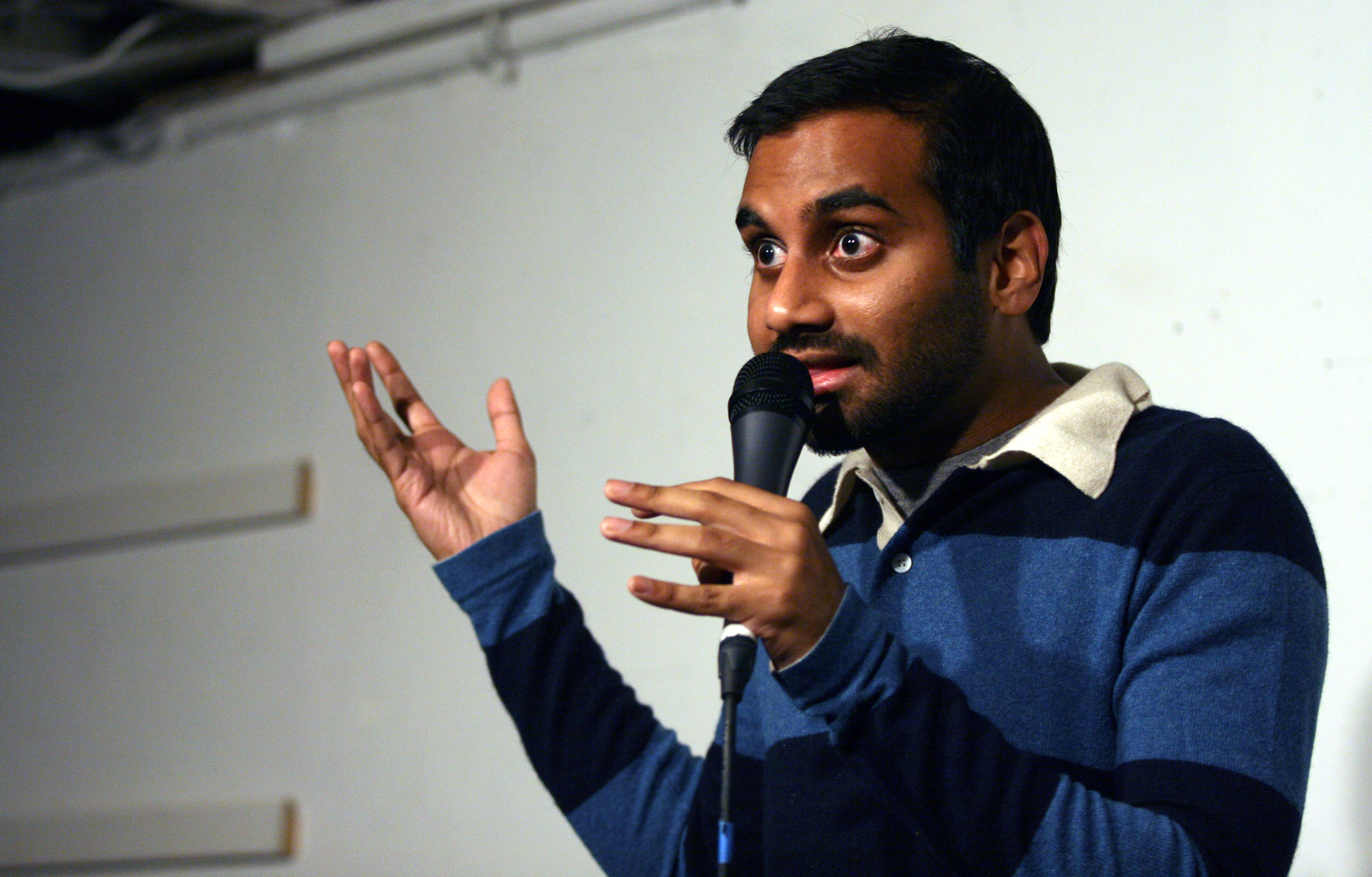 Aziz Ansari discusses youth news stories and playing soccer Wednesday at the Meltdown. 12.7.11 © Atrossity Photography